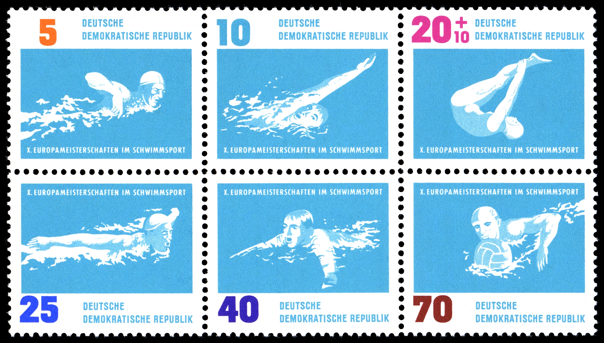 Ausgabepreis: Pfennig First Day of Issue / Erstausgabetag: Auflage: Entwurf: Druckverfahren: Michel-Katalog-Nr: Ländercode-MiNr: Licensing This file is most likely NOT in the public domain. It has been marked for review, and will be deleted in due course if the review does not find it to be in the public domain.This file was previously considered to be in the public domain as a German stamp; it is possible that it is in the public domain for other reasons, in which case a new rationale will be applied as part of the review process. See below for the previous rationale. Previous public domain rationale, no longer applicable This stamp is in the public domain in Germany because it was released by the postal administration of the German Democratic Republic or the Soviet occupation zone (Deutschen Post der DDR) whose legal successor is the Federal Republic of Germany. Thus it is an official work according to German copyright law (§ 5 Abs. 1 UrhG).